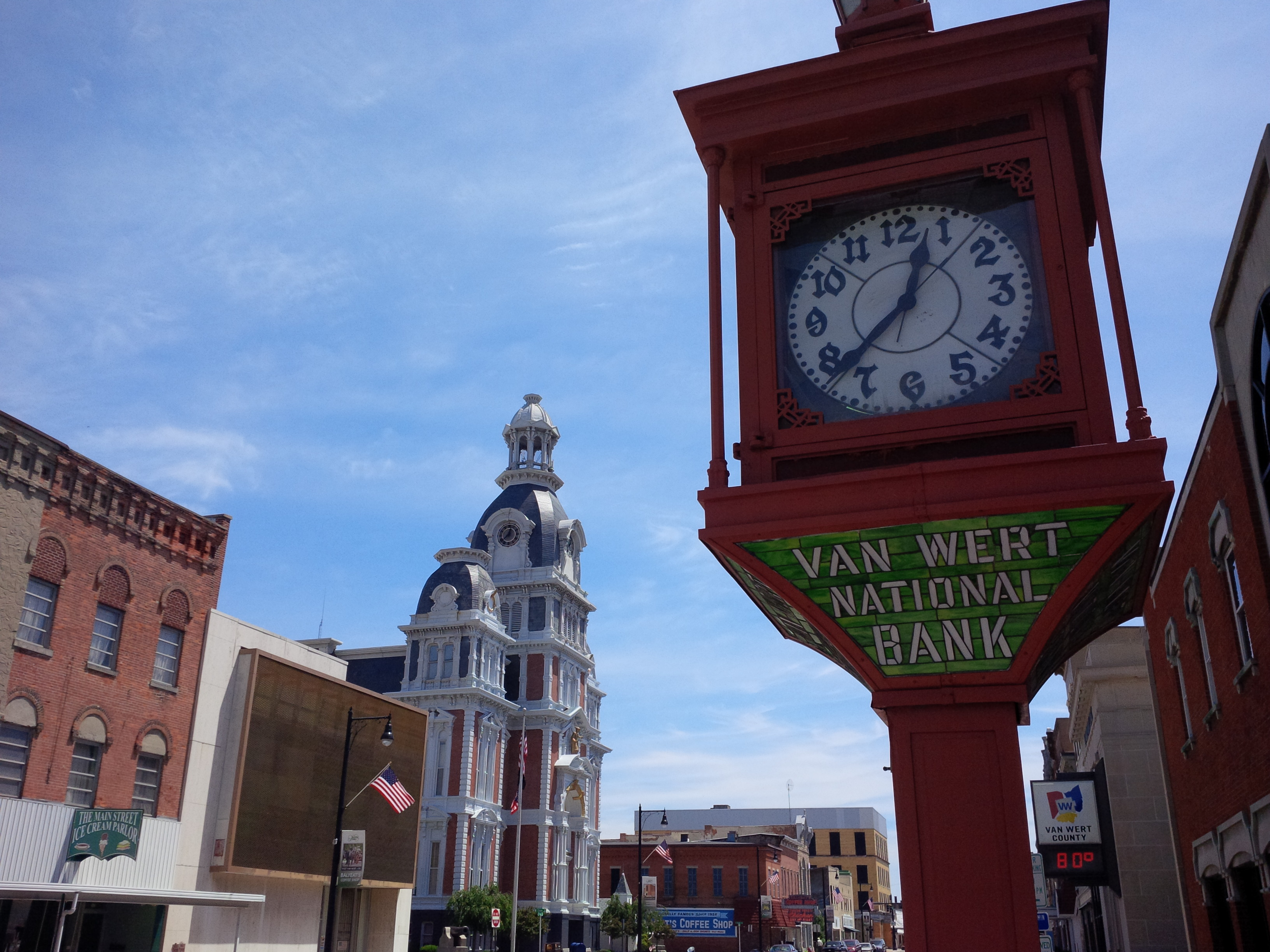 Downtown Van Wert, Ohio